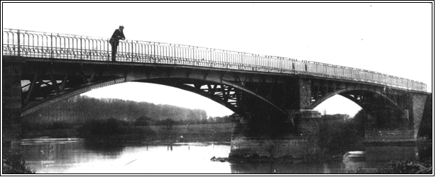 Martincourt-sur-Meuse's bridge, before 1940